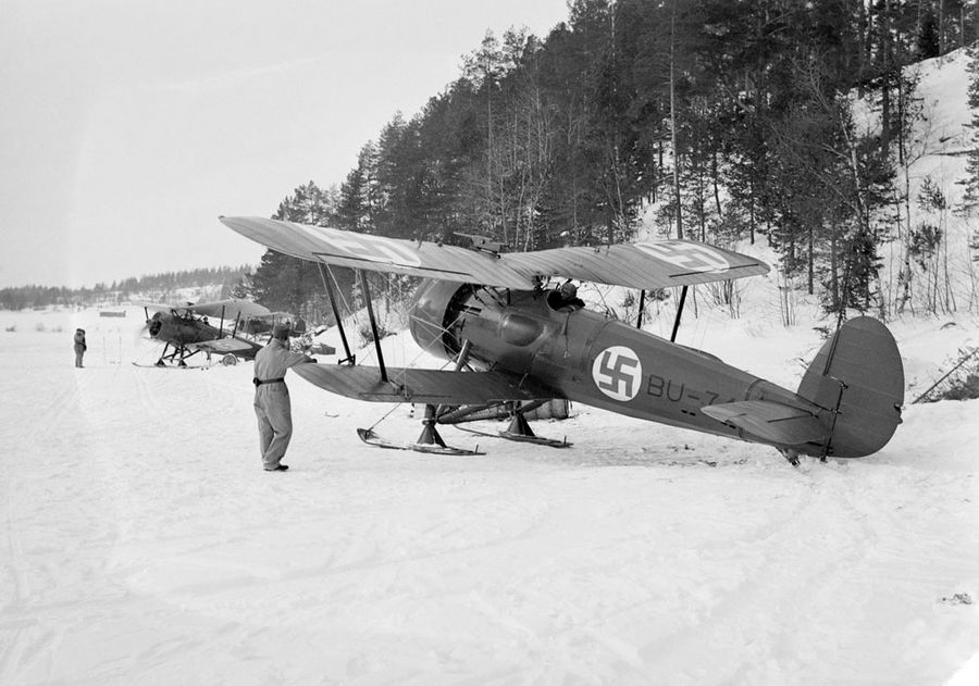 The air force participated in the winter war exercise arranged in the Sortavala - Lahdenpohja area in 1937. The Yellow Buldog- squadron on the ice of a lake.